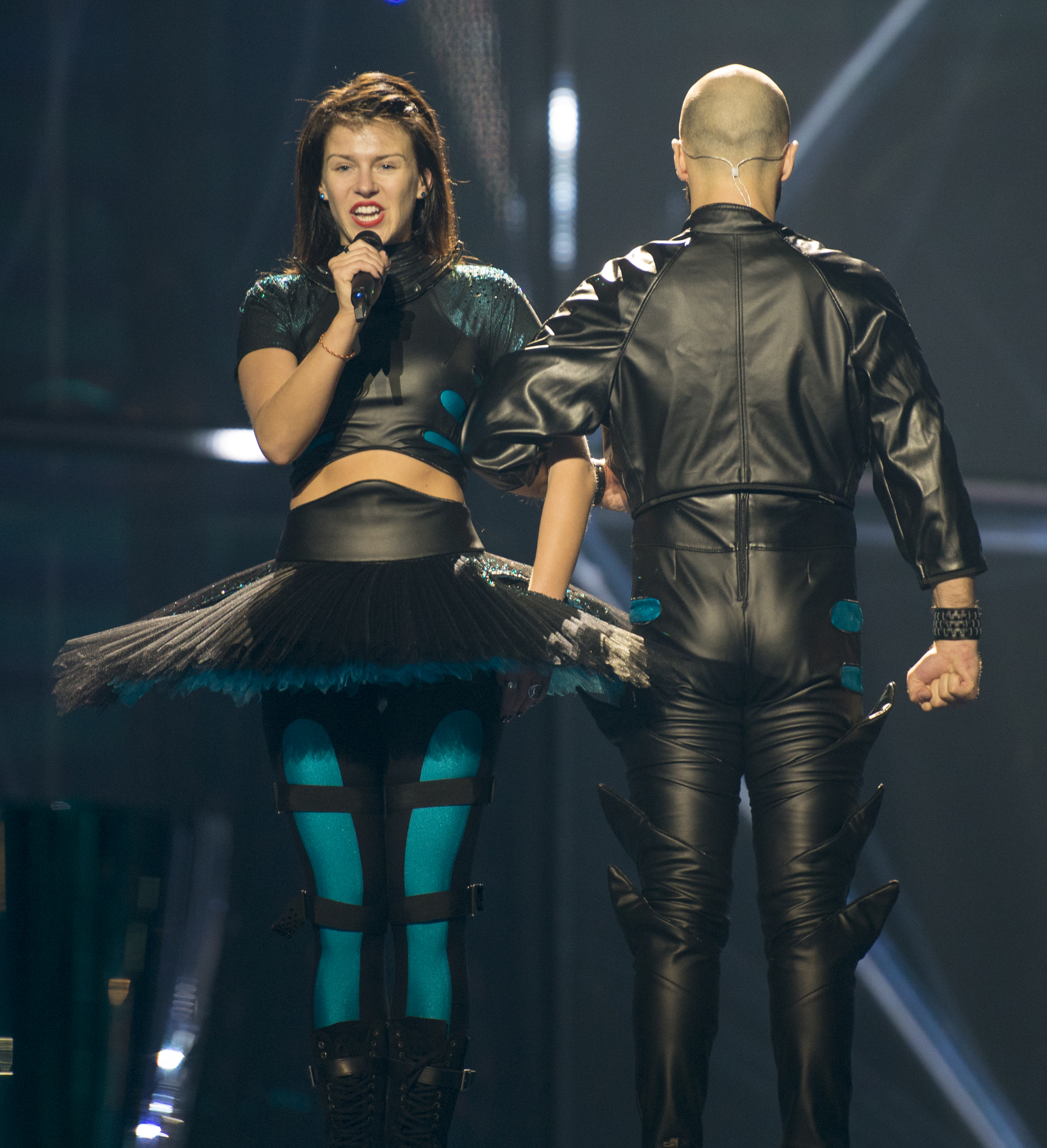 Vilija Matačiūnaitė representing Lithuania with the song "Attention" during the first dress rehearsal of the second semi final of the Eurovision Song Contest 2014 Copenhagen. (Help translate this text)